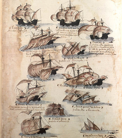 Depiction of the 2nd Portuguese India Armada (fleet of Pedro Alvares Cabral, 1500) from the Livro das Armadas (Academia de Ciencias de Lisboa)